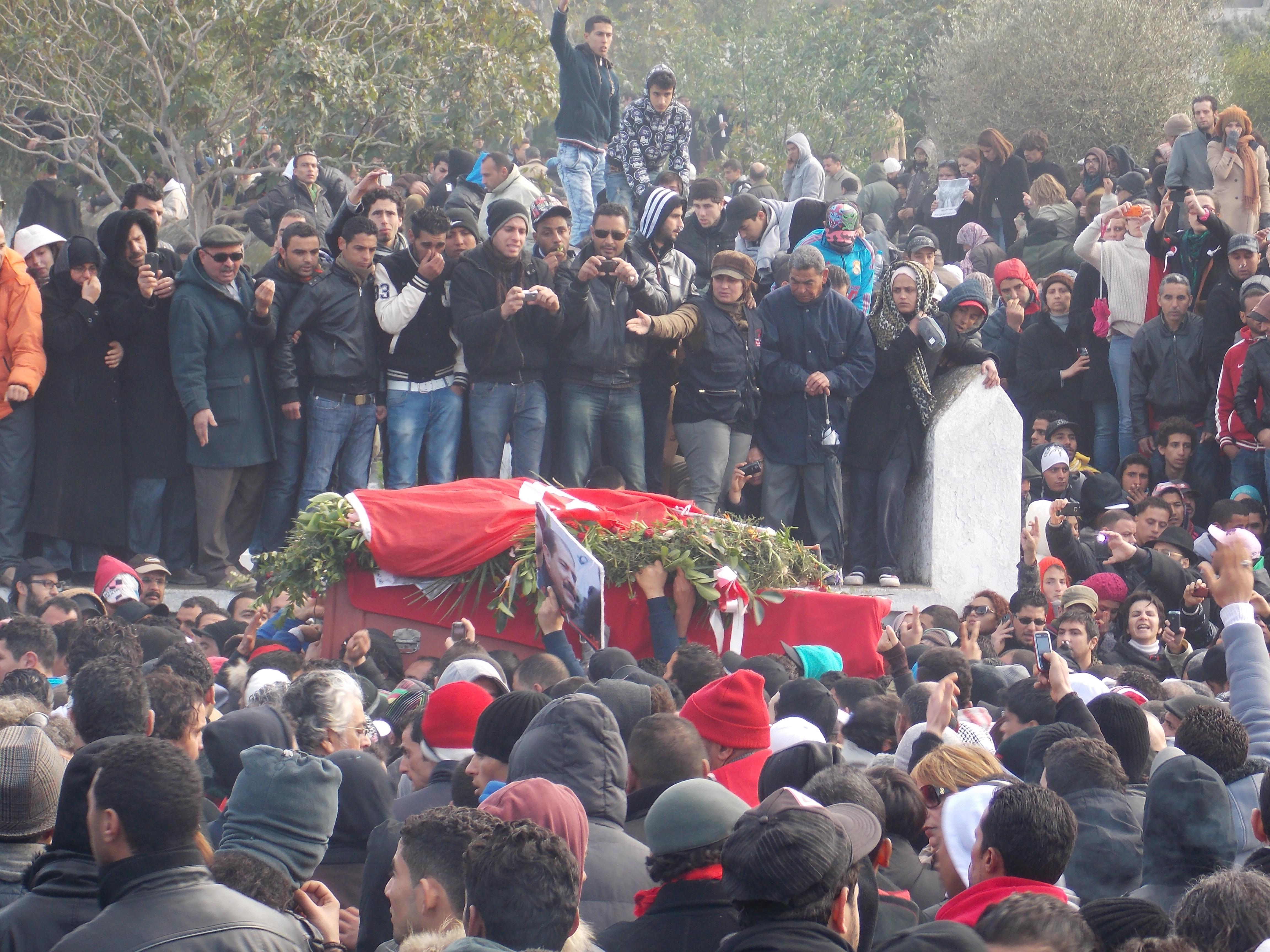 national funerals for a brave man